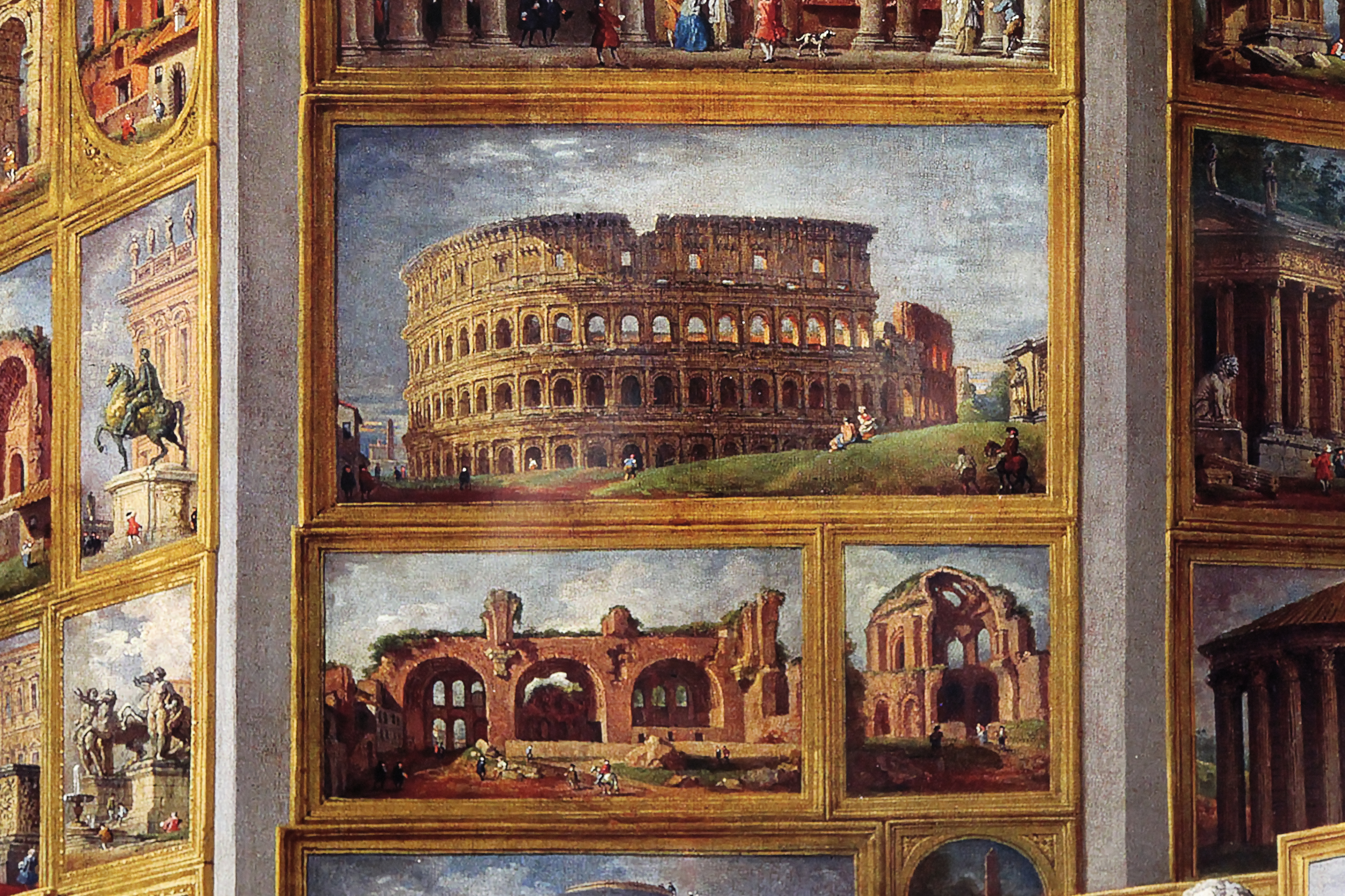 Ancient Rome by Giovanni Paolo Pannini, Marseille version, "Der schöne Schein" exhibition of replicas of well-known artwork in the Gasometer in Oberhausen